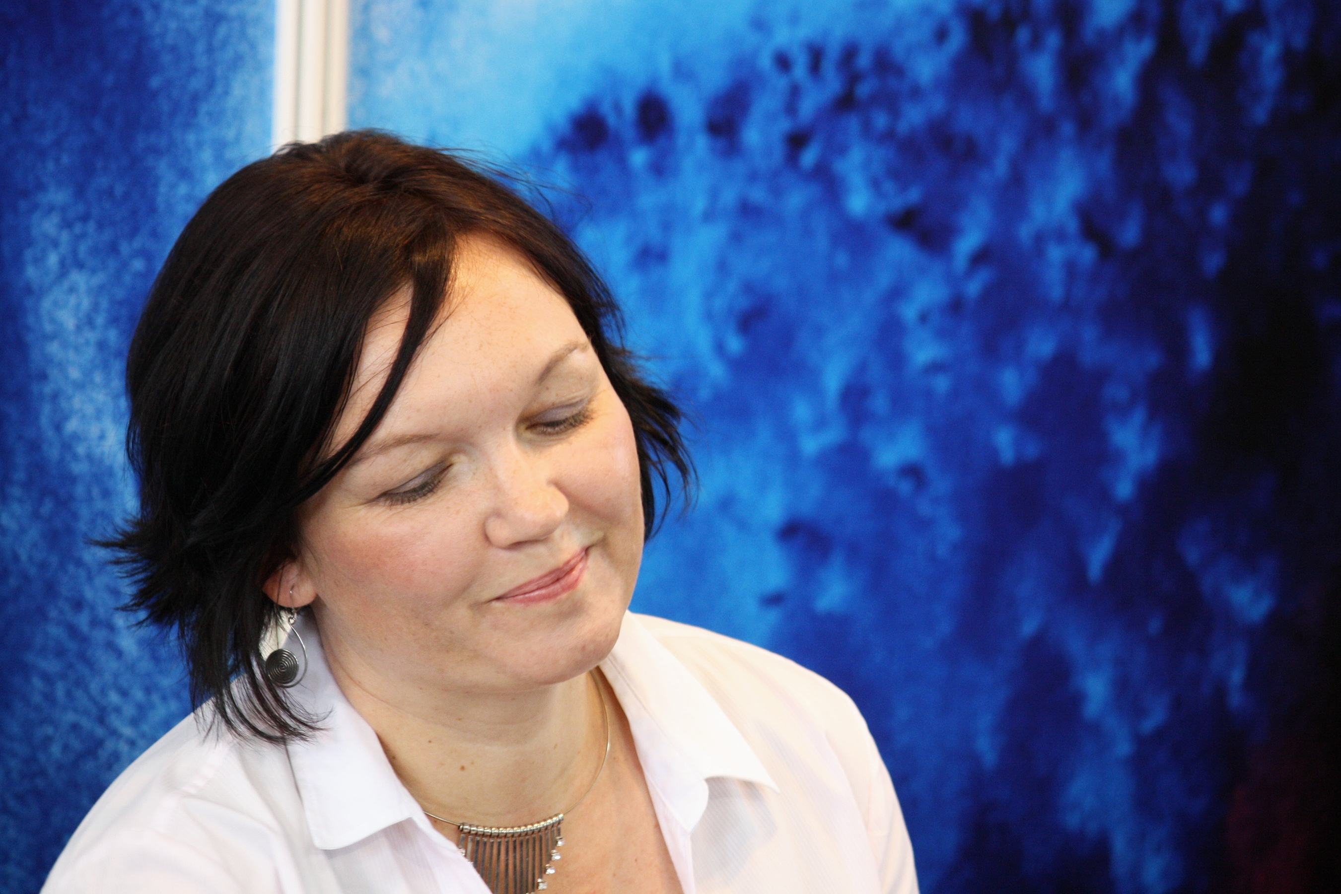 Česky: Svět knihy 2013 Personality rights warning This work depicts one or more identifiable persons. The use of depictions of living or deceased persons may be restricted by laws regarding personality rights. The extent of these restrictions depends on jurisdiction. Personality rights restrictions apply independently of copyright. Before using this content, please ensure that the intended use does not infringe any personality rights under applicable laws. You are solely responsible for ensuring that you do not infringe someone else's personality rights. See our general disclaimer.